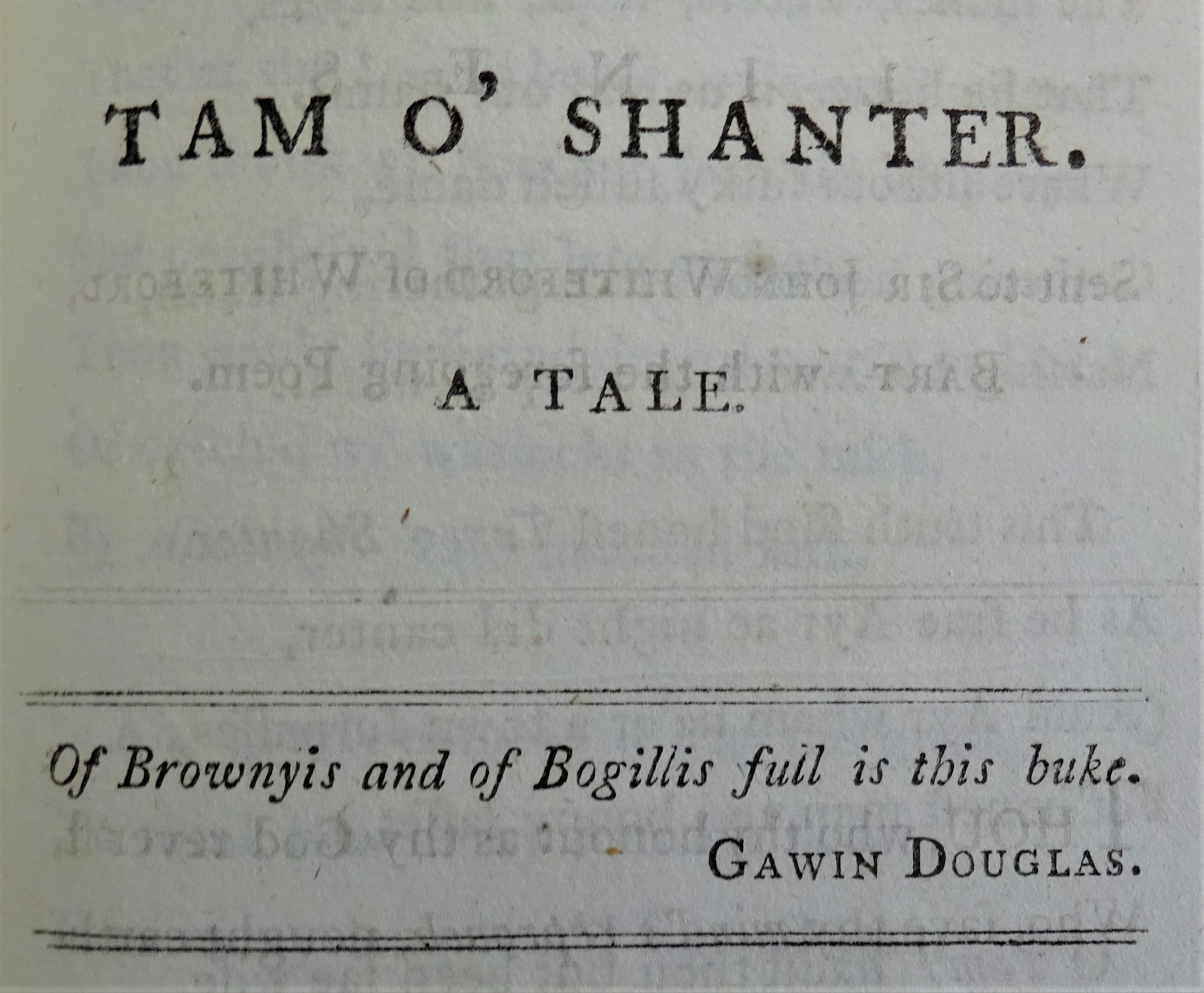 Tam O'Shanter poem. 1794 Edition. Poems, Chiefly in the Scottish Dialect. Robert Burns.